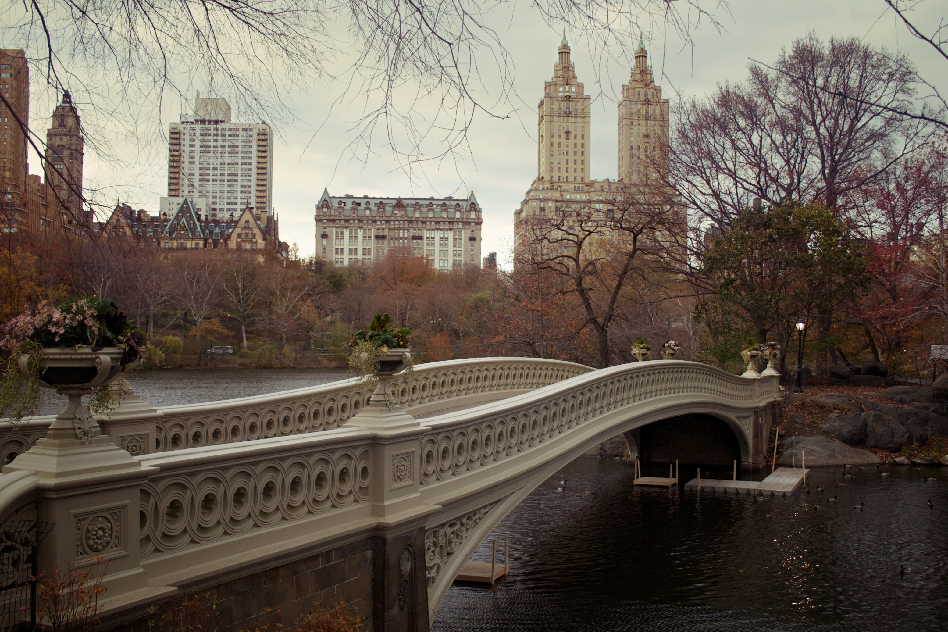 One of the most photographed bridges in New York, they say. So I had to have a take on it as well =)